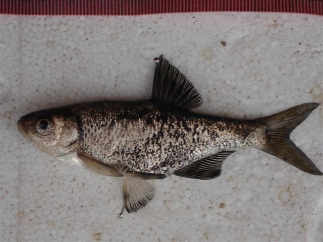 Alburnus caeruleus from Arbil, Iraq. 9 cm, 8 g.